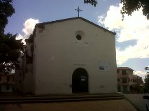 Photo of San Carlos church, in Santo Domingo, Dominican Republic